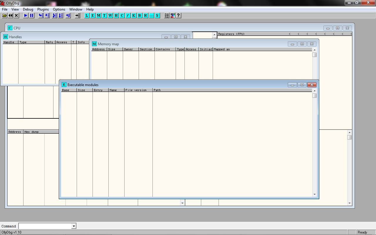 The picture shows the MDI-Appications OllyDbg.